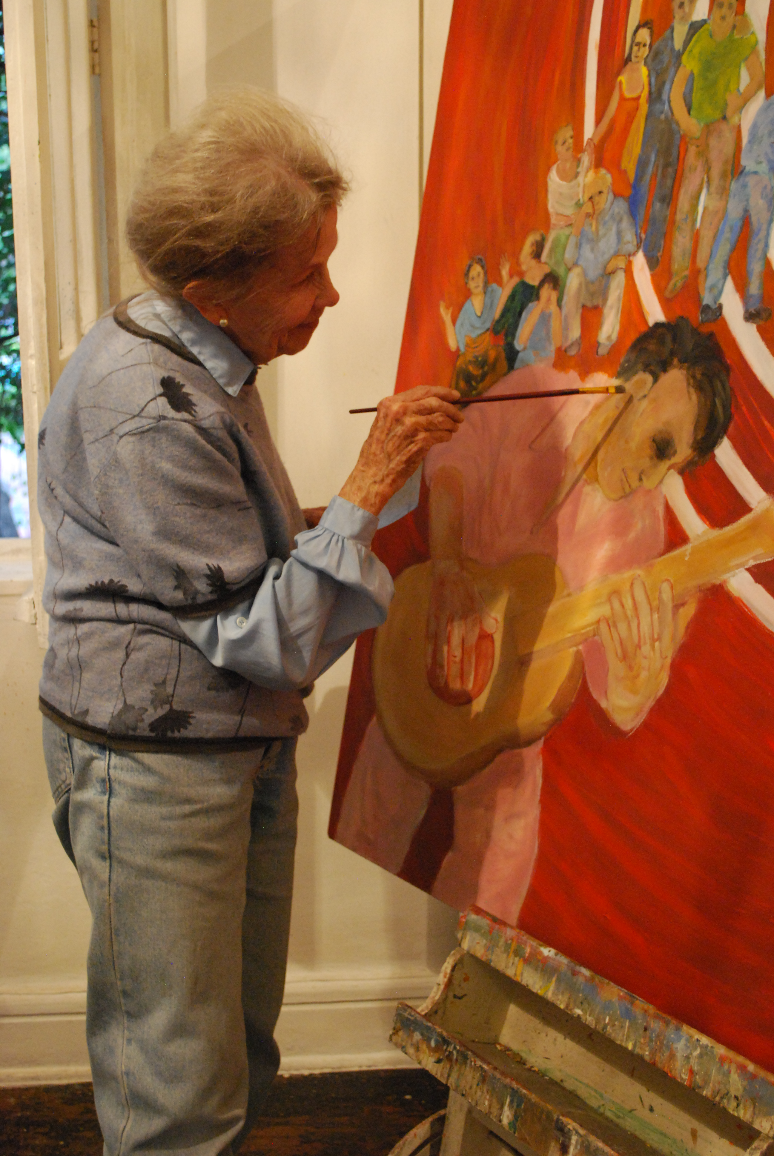 Helen Bickham painting in her studio in Mexico City